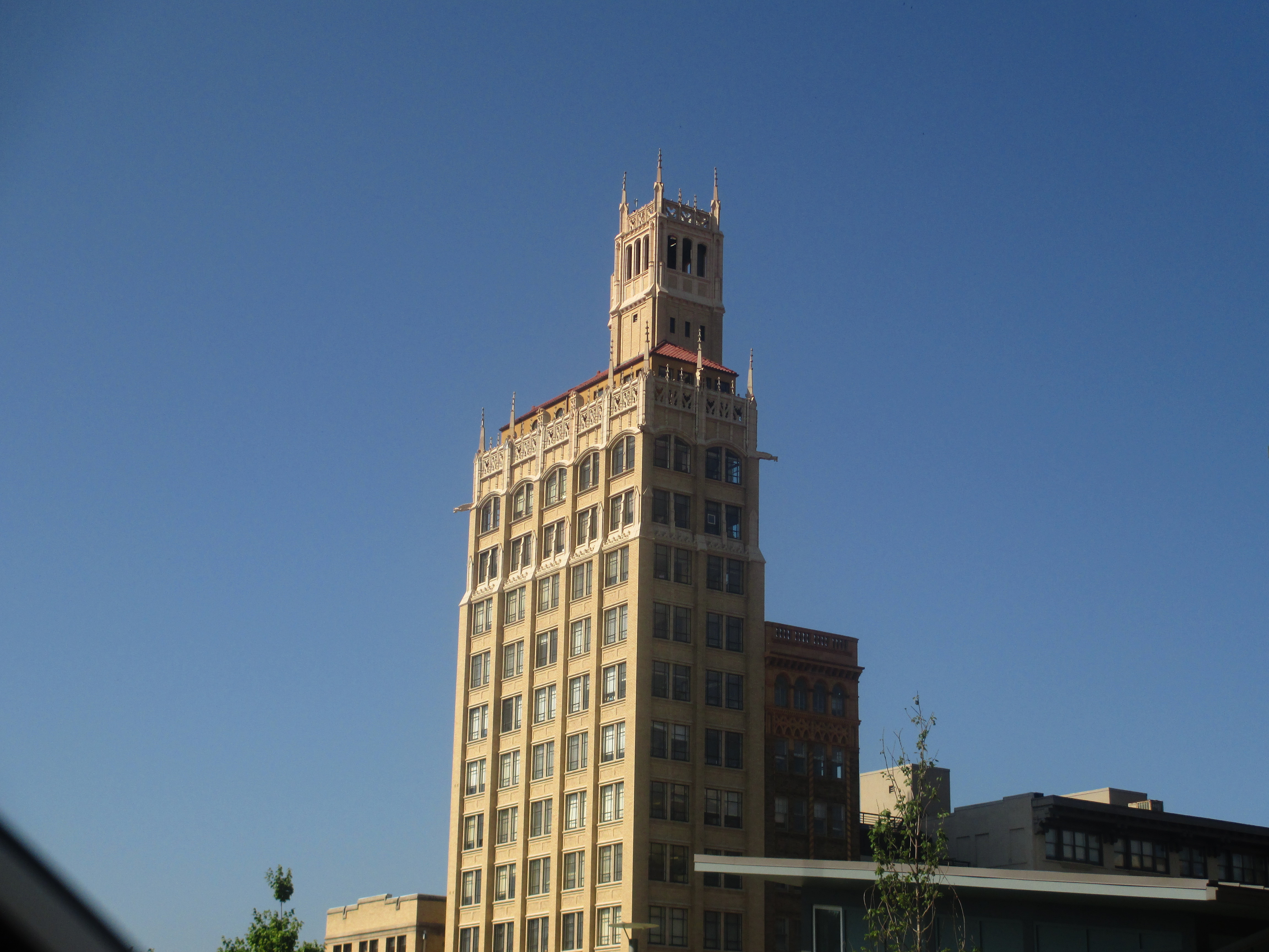 I took photo of Jackson Building, first skyscraper in western NC, with Canon camera.